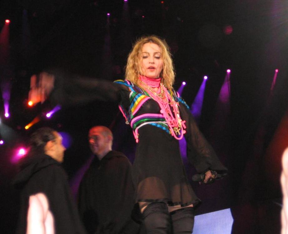 Madonna performing "Spanish Lessons" on the tour